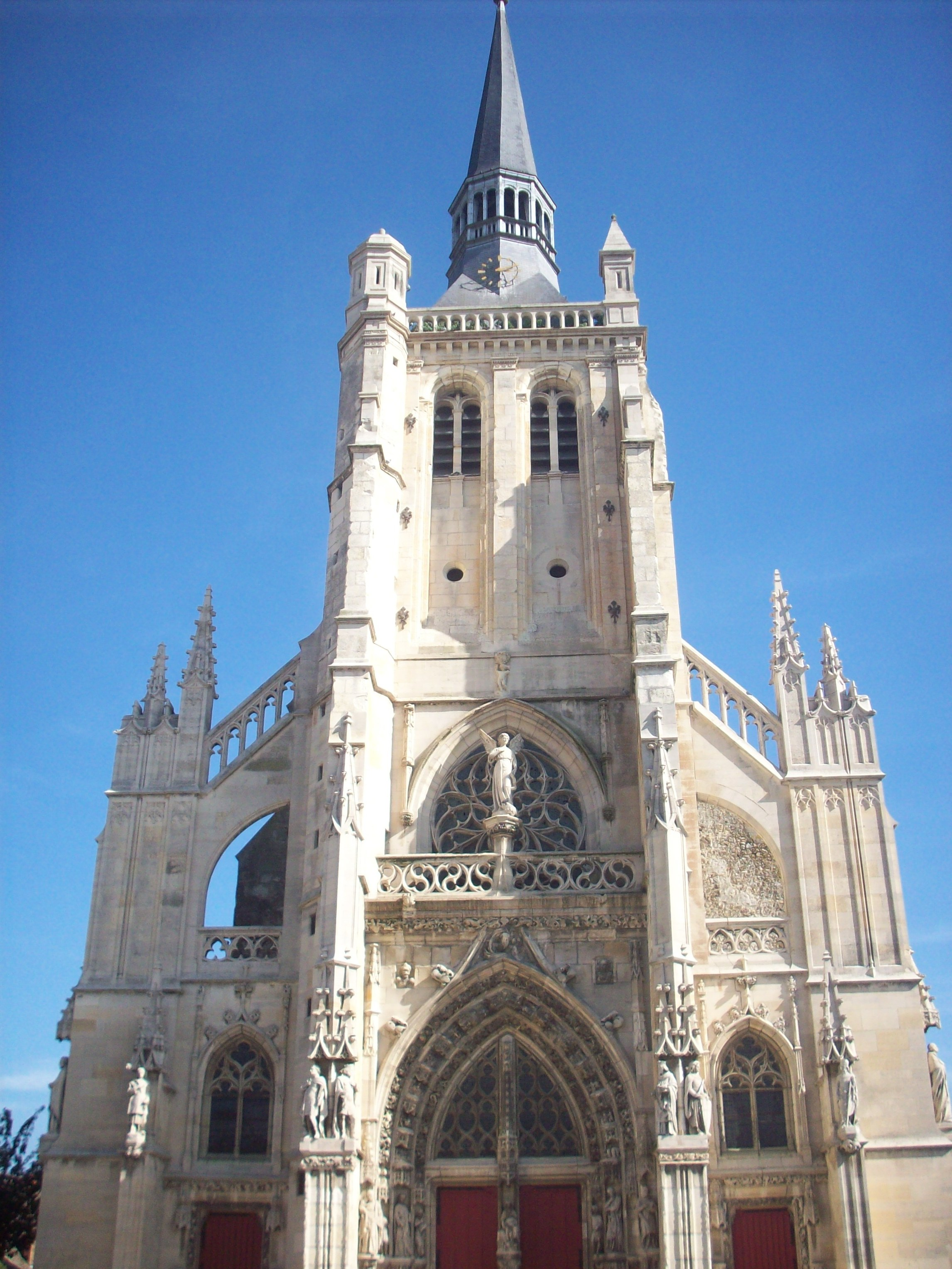 Church Saint-Brice of Aÿ